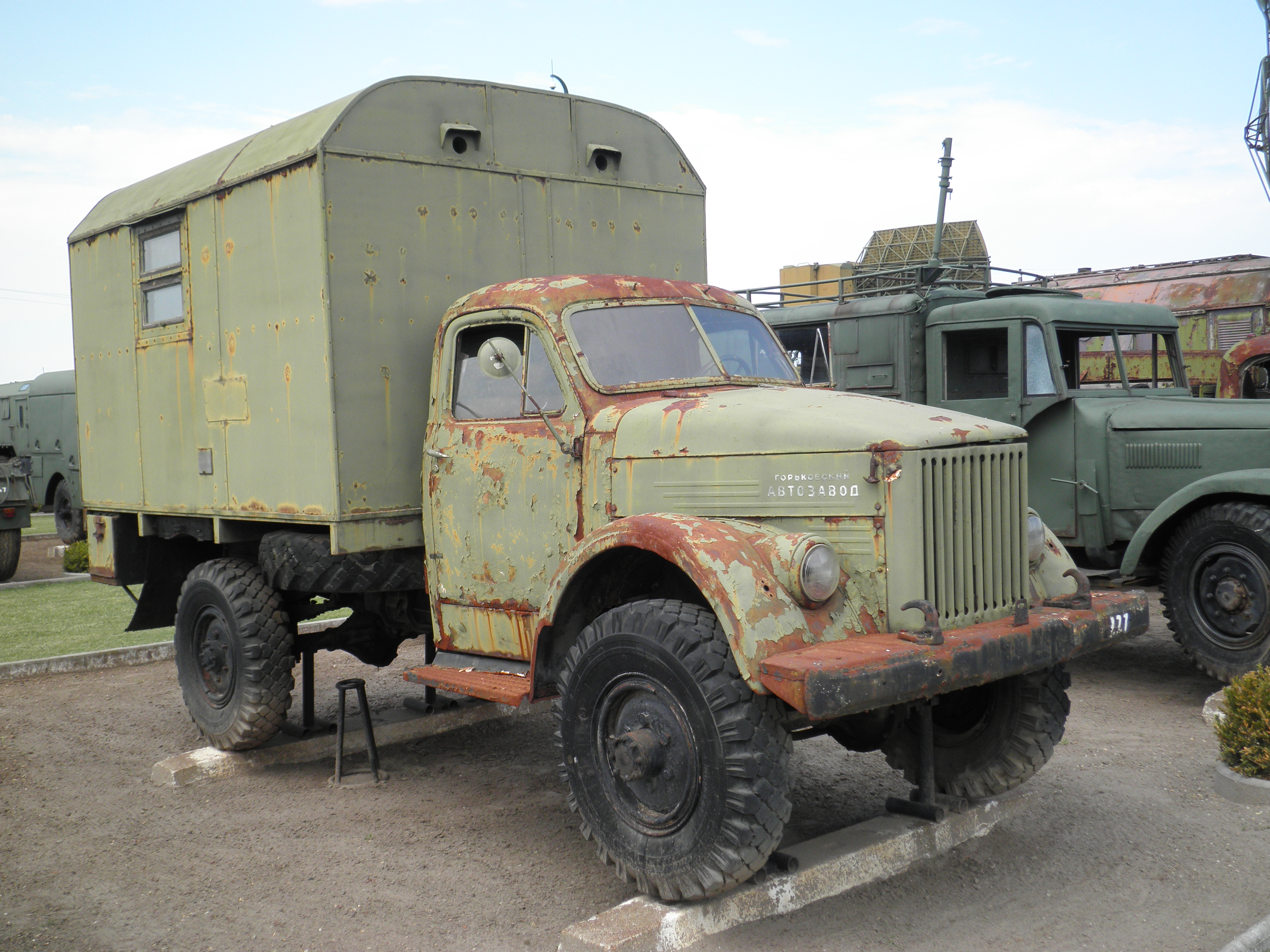 GAZ-63 in Army History Museum and Park in Kecel, Hungary